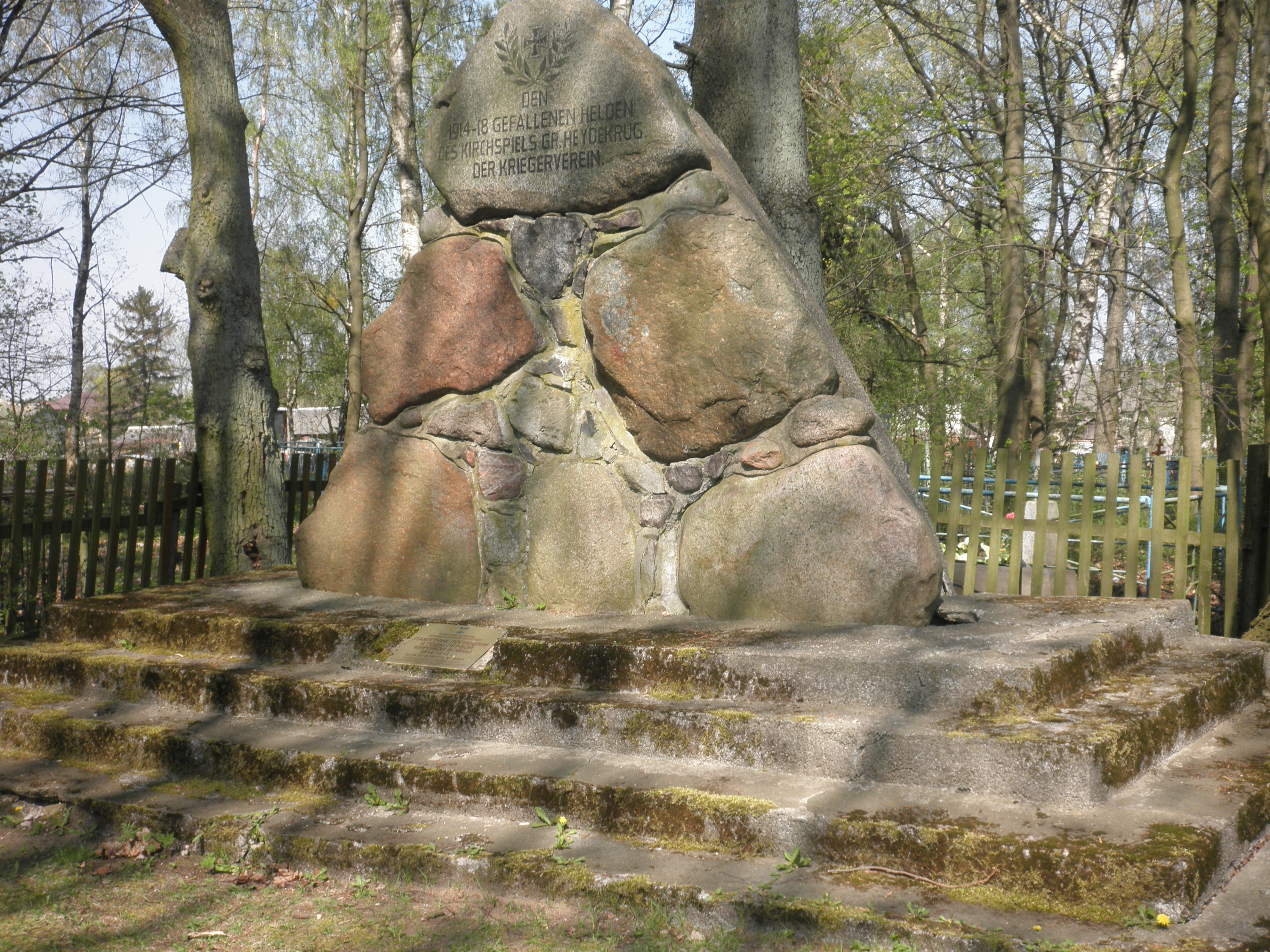 War Memorial in Wsmorje (Kaliningrad)